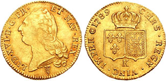 Kings of France. Louis XVI. 1774-1793. AV Double Louis d'Or (15.23 g). Bordeaux mint. L. Bruno Lhoste, mintmaster, and Jean Moulinier, chief engraver. Dated 1789. Bare head left; winged caduceus (mintmaster mark) in exergue Crowned coat-of-arms of France and Navarre; button (engraver mark) before date; K (mint) below shields. Duplessy 1706; Friedberg 474; KM 592.8.